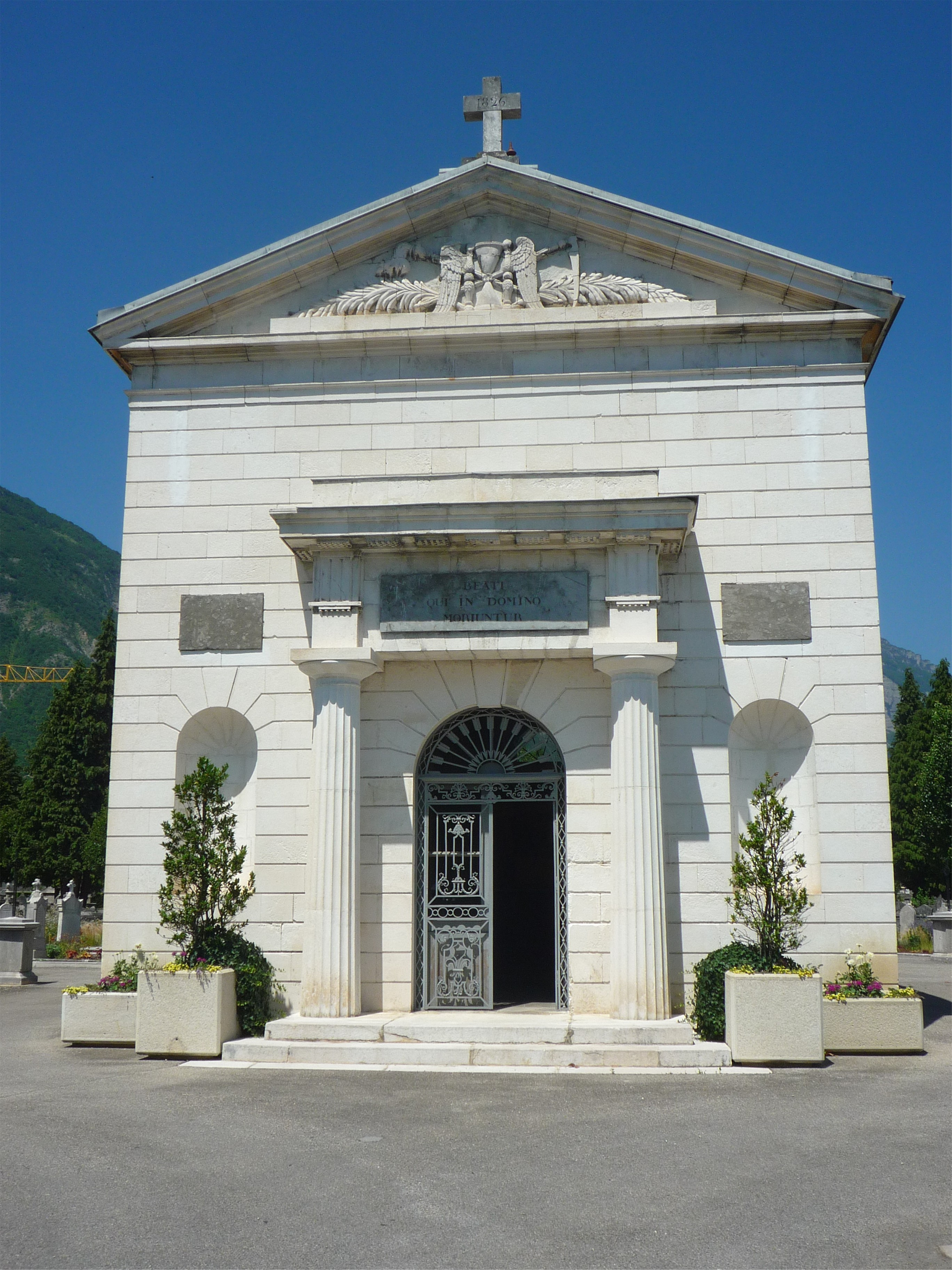 Saint Roch chapel in Saint Roch cemetery, Grenoble (France).